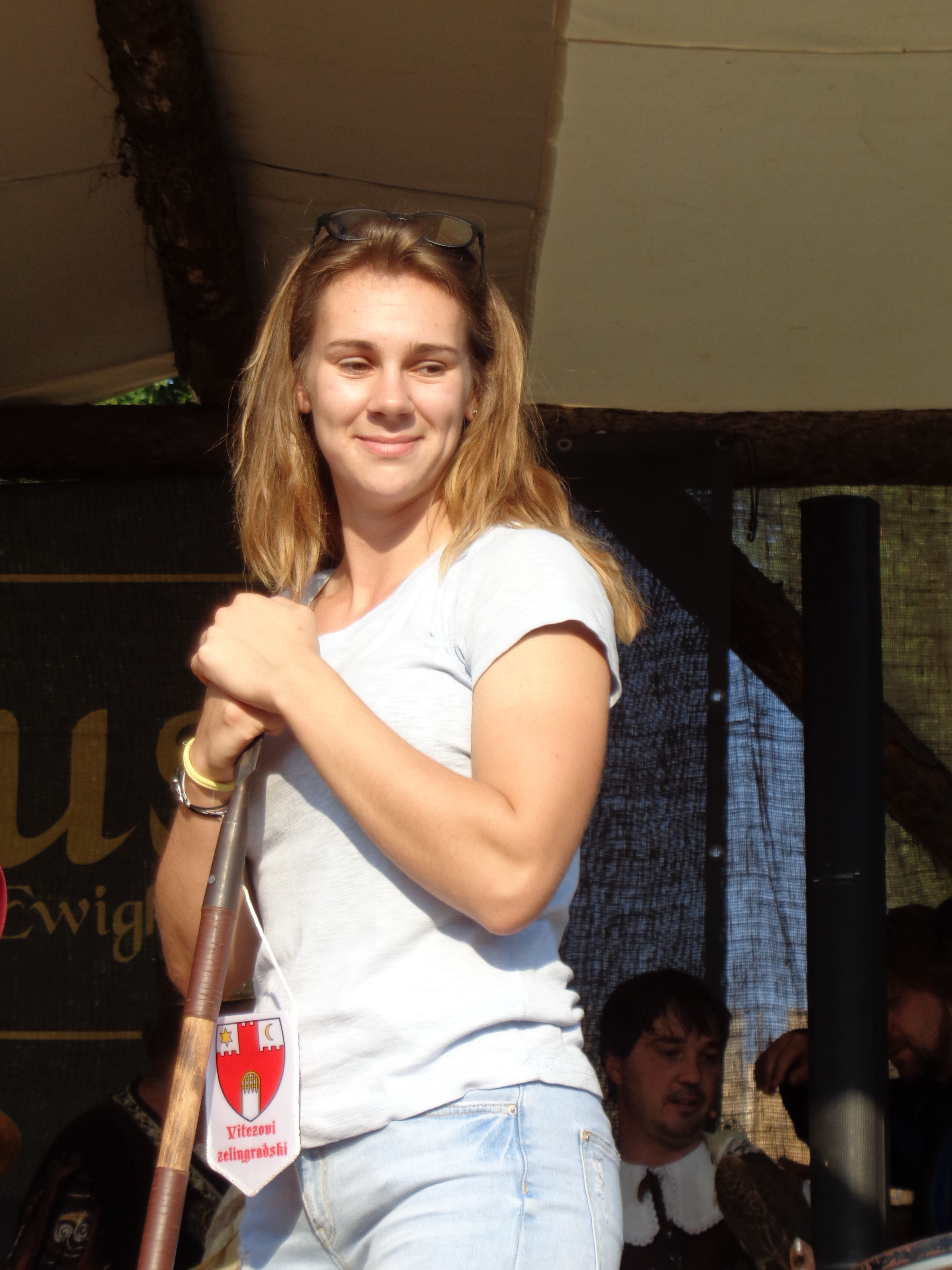 Sara Kolak (b.1995), Croatian javelin thrower, 2016 Rio de Janeiro Olimpic champion, received a medieval knight's javelin at Koprivnica Renaissance Festival